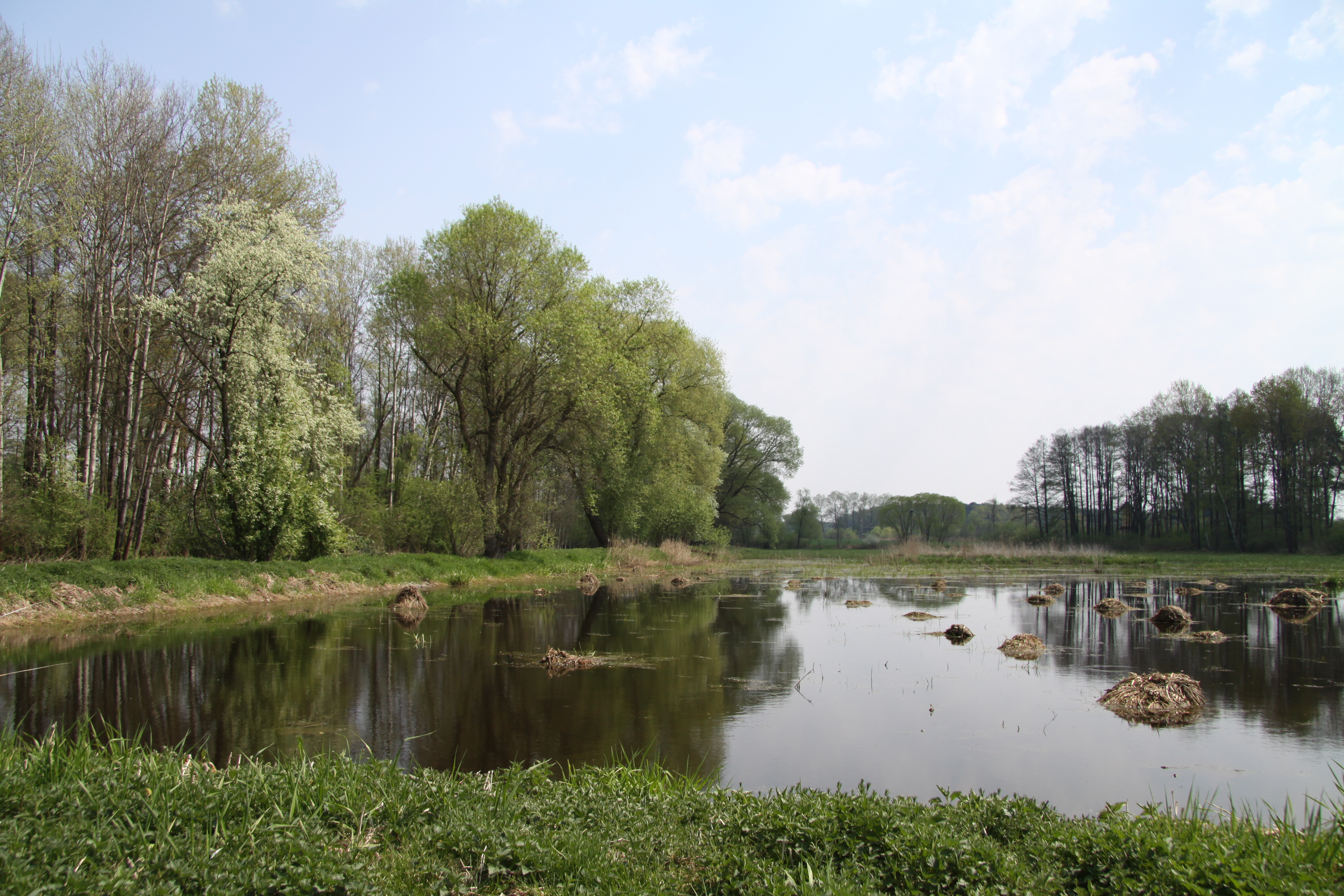 Natural reserve Radomilická mokřina near Radomilice, České Budějovice District, Czech Republic